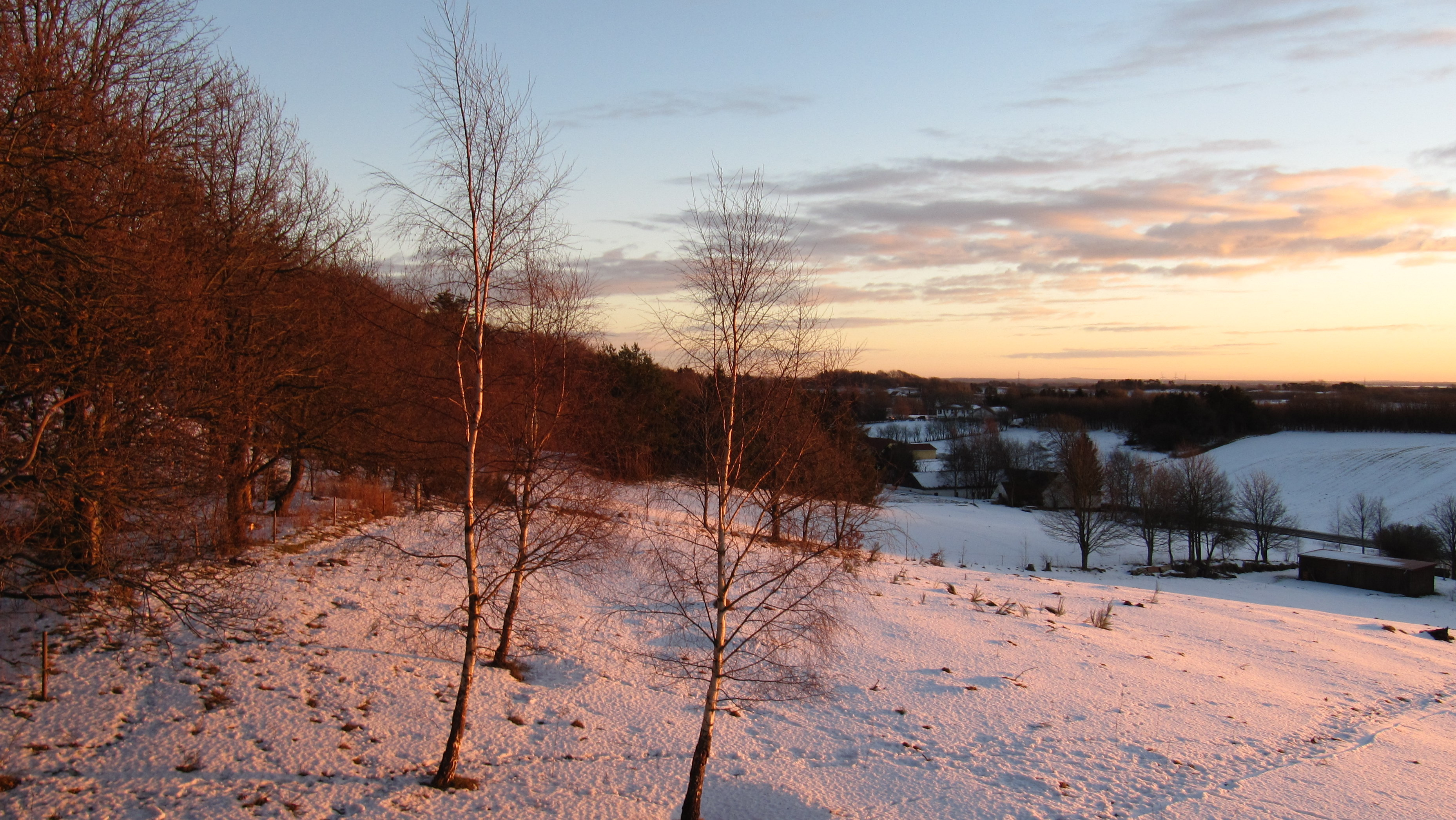 View at Hellig Høje near Vester Hassing